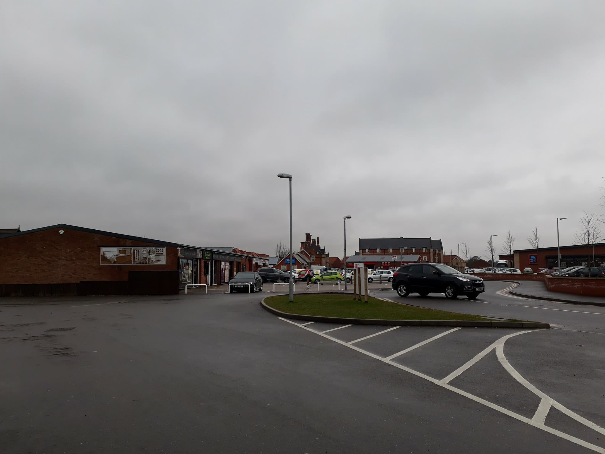 My own.